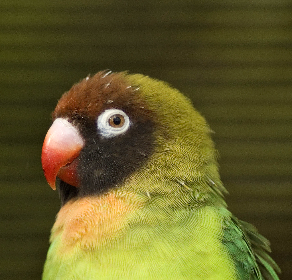 Black-cheeked Lovebird with visible pin feathers on head, Birmingham Nature Centre, West Midlands, England.